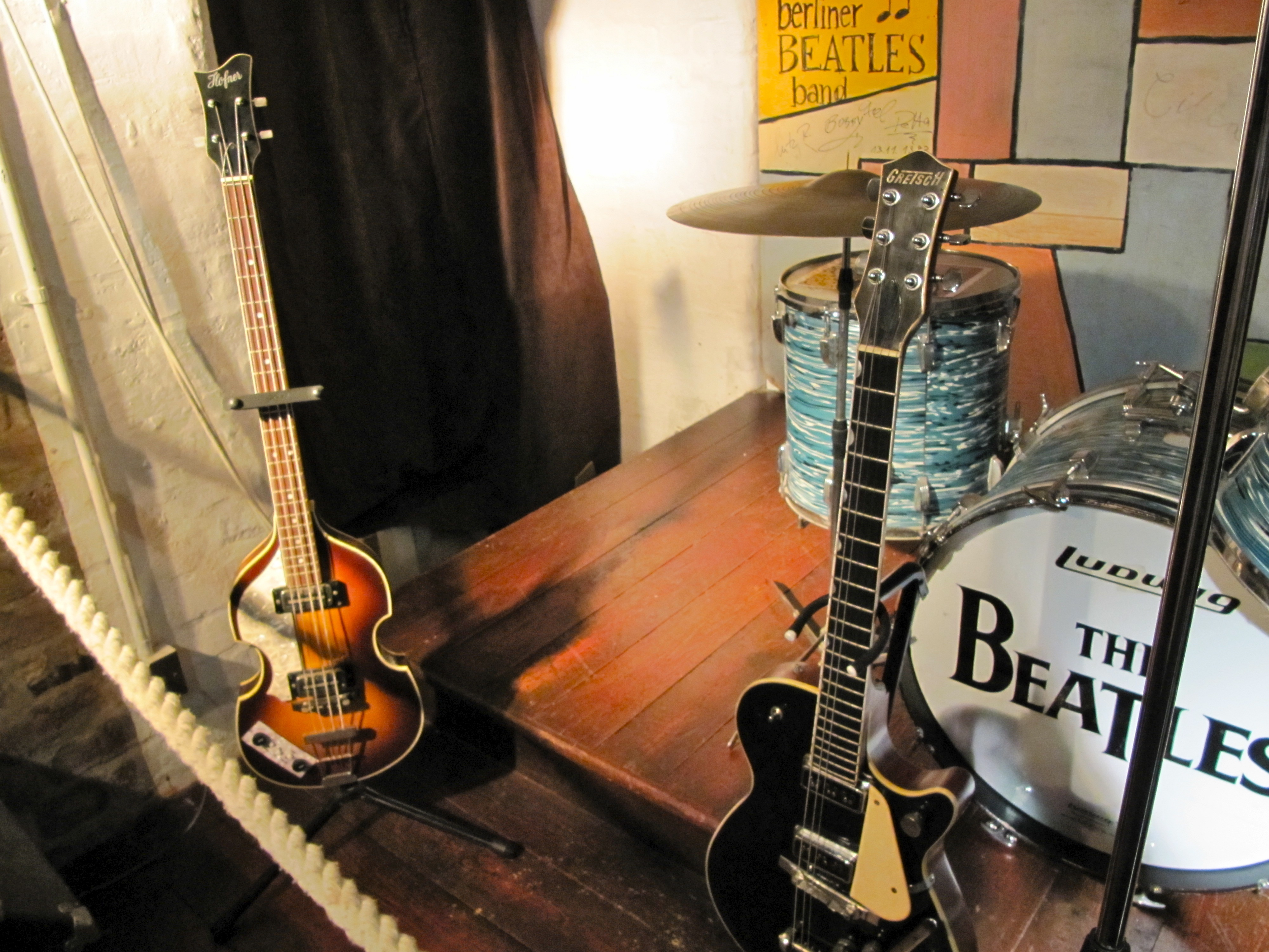 The Cavern Club replica of The Beatles Story museum